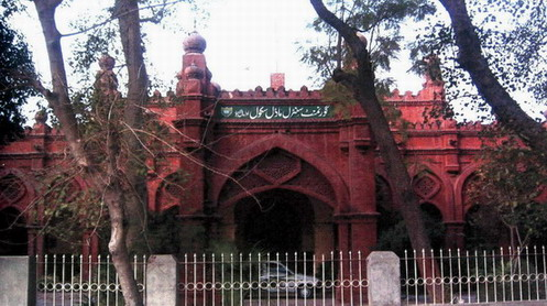 Central Model School — Punjab, Pakistan. MY SHOOLS'S PIC